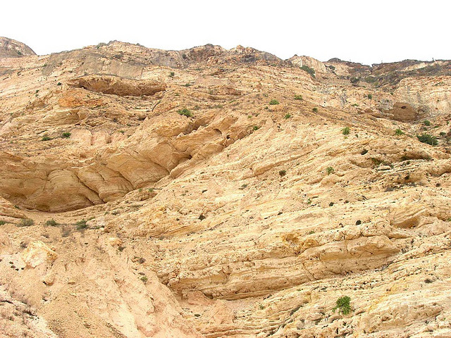 An example of the typical rugged, serrated and stunning landscape of Oman. Salalah 2006